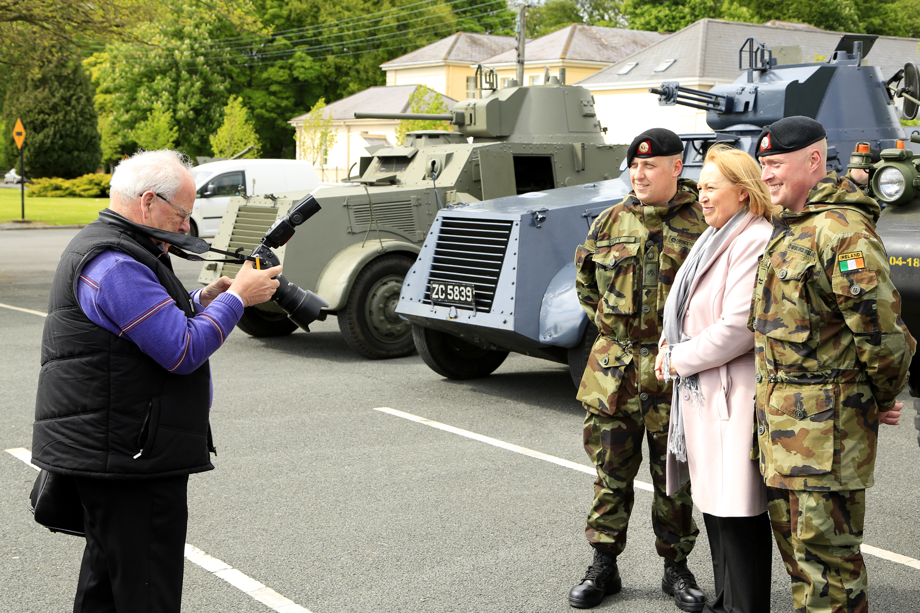 45 Inf Gp UNIFIL Ministerial Review Curragh Camp 012